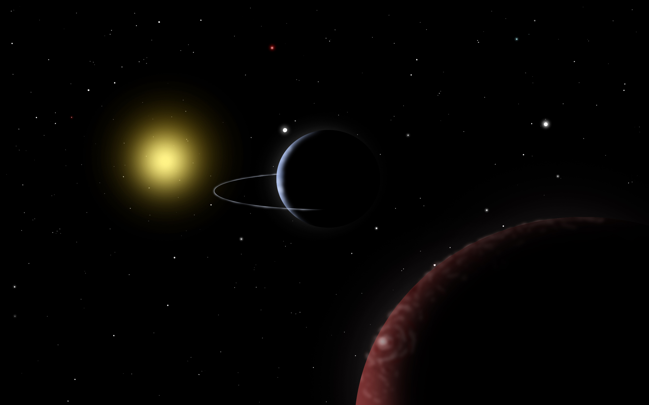 HD 187123, a yellow Class G star, has a system consisting of at least two planets.